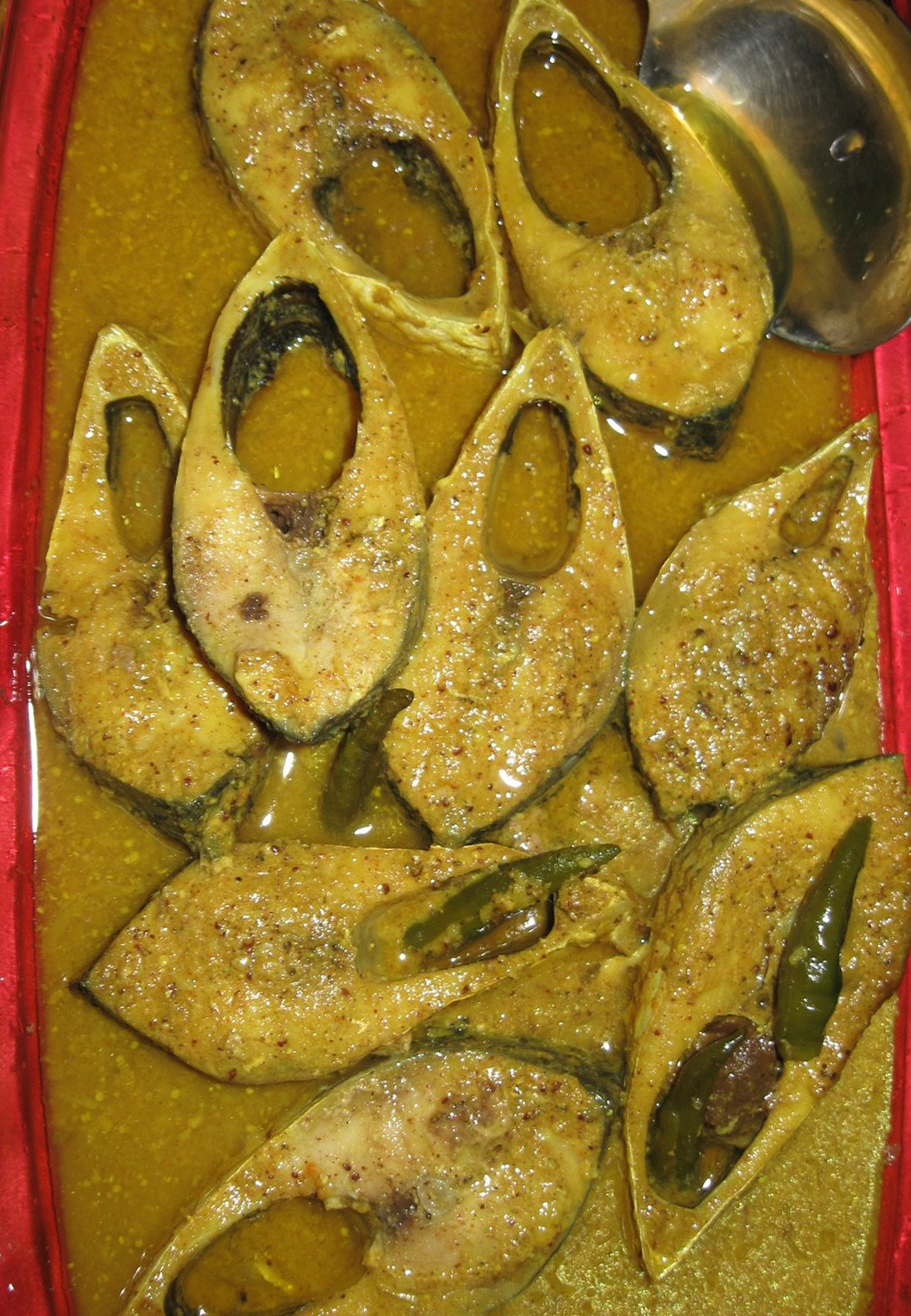 Smoked hilsa cooked with mustard seed in Dhaka.